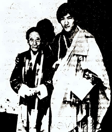 Mayeum Choying Wongmo Dorji and grandson